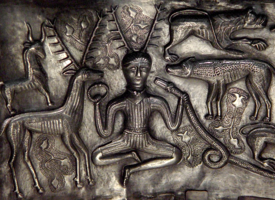 == Original upload log == This image is a derivative work of the following images: :Image:Detail_of_antlered_figure_on_the_Gundestrup_Cauldron.jpg licensed with Cc-by-sa-3.0, GFDL 2008-05-29T19:16:13Z Bloodofox 1000x759 (1009760 Bytes) Information |Description= en|1=Detail of antlered figure holding a serpent and a torc, flanked by animals (including a stag), depicted on the cauldron found at Gundestrup, Himmerland, Jutland, Denmark. The Gundestrup cauld I attempted to upload with derivativeFX, but the server connection was reset, and then the Wikimedia Commons manual upload form didn't allow me to copy in this handy auto-generated info, so I'm uploading it here instead. Easier upload form!